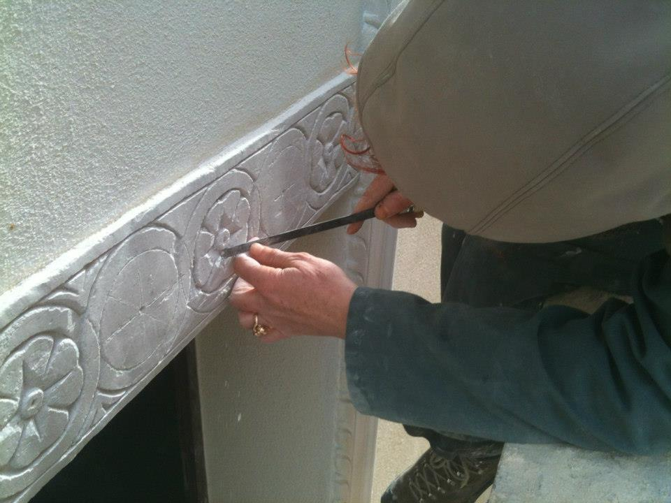 Véronique Vialis création de gypserie